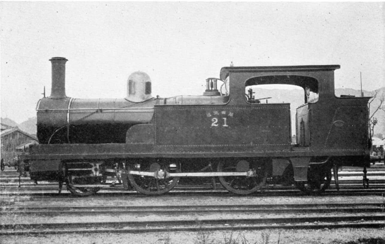 Japan Government Railway type 870 steam locomotive (ex. Kwansai Railway 21)